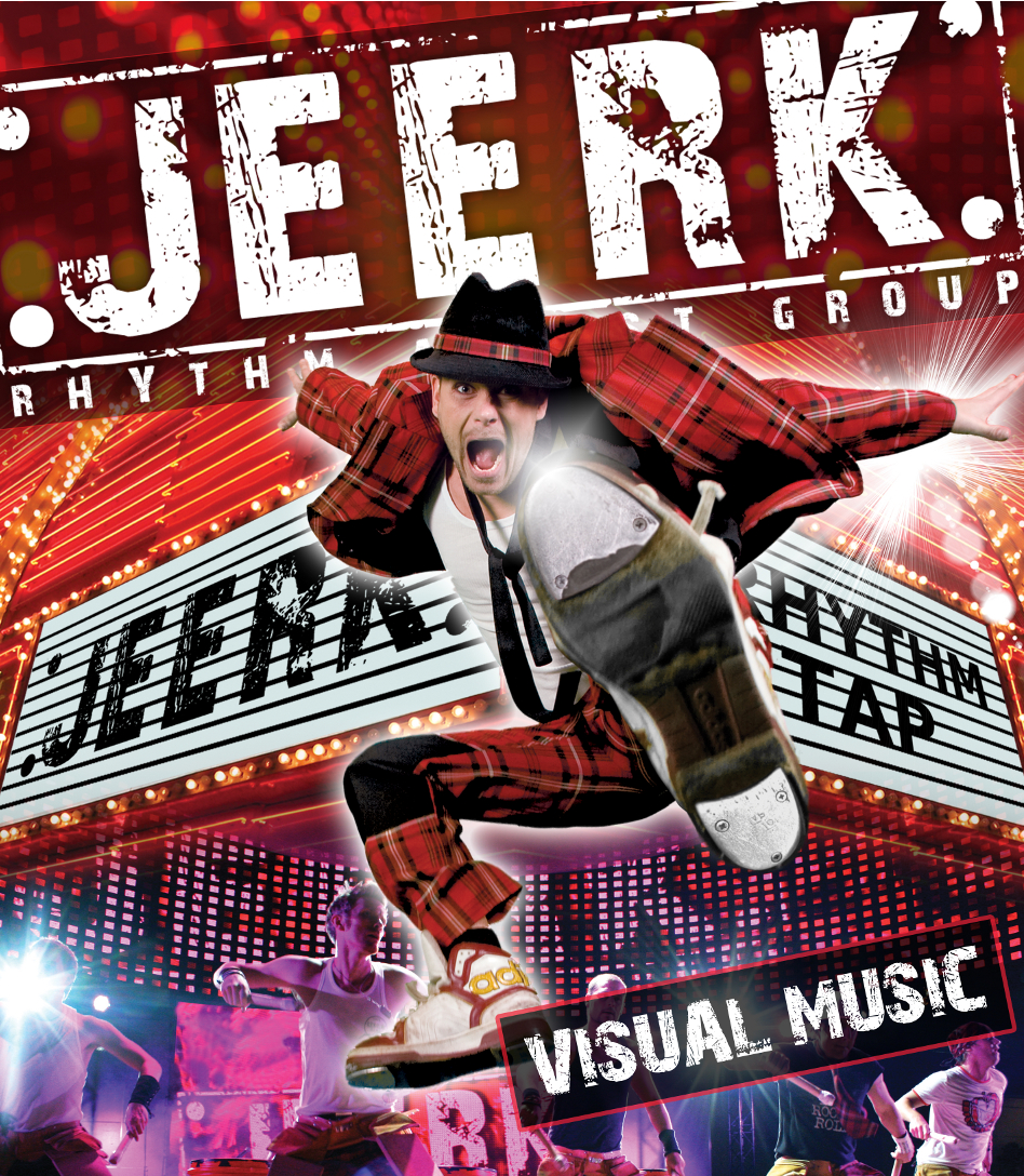 Artwork from the Swedish Show, JEERK